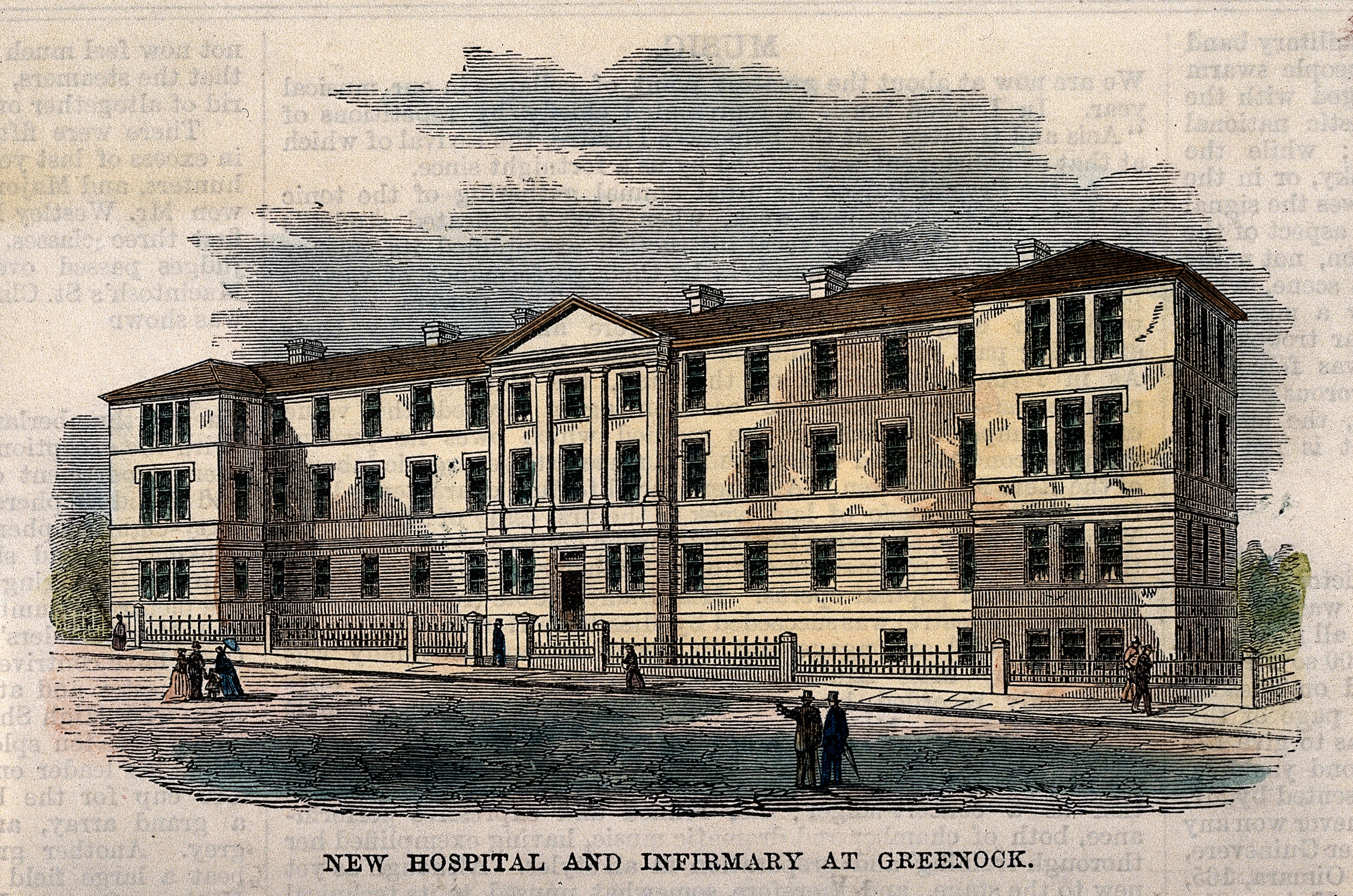 New Hospital and Infirmary, Greenock, Renfrew, Scotland. Coloured wood engraving, 1869. Iconographic Collections